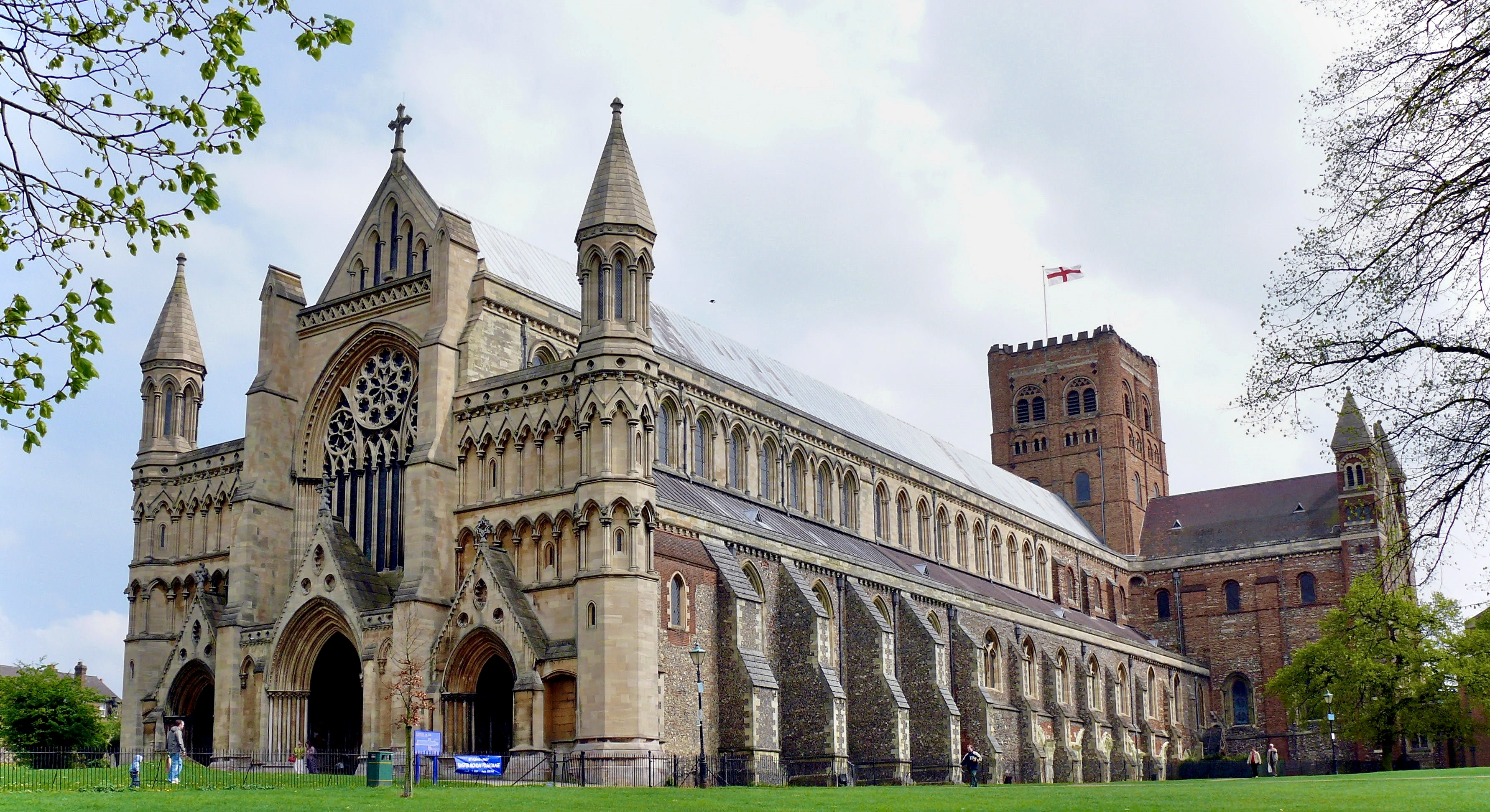 The Cathedral and Abbey Church of St Alban